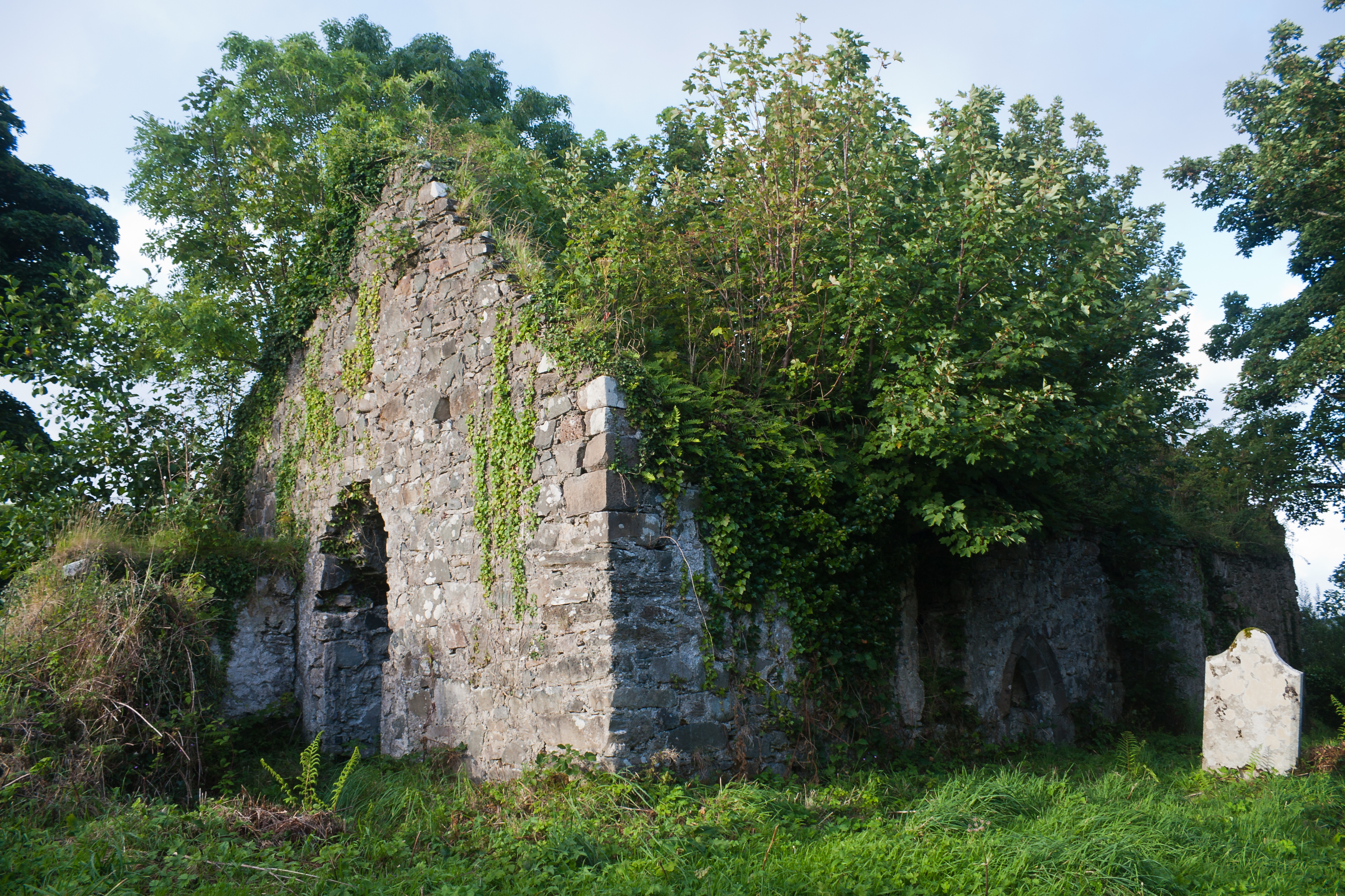 South-west view of St. Catherine's Friary with the ruins of the porch (left), the west gable of the nave, and its south wall.